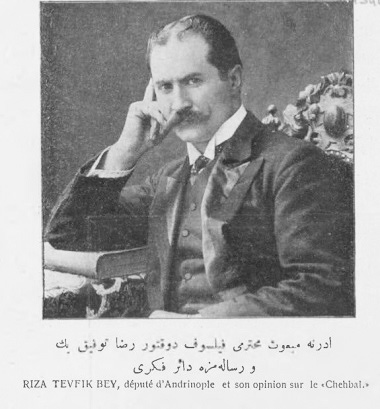 Riza Tevfik Bölükbasi in 1910